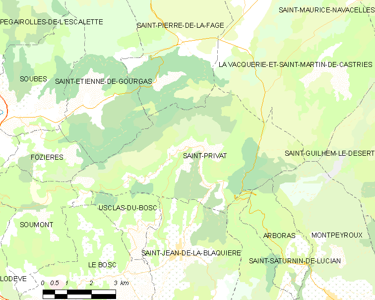 Map commune FR insee code 34286.png - Saint-Privat (Hérault)